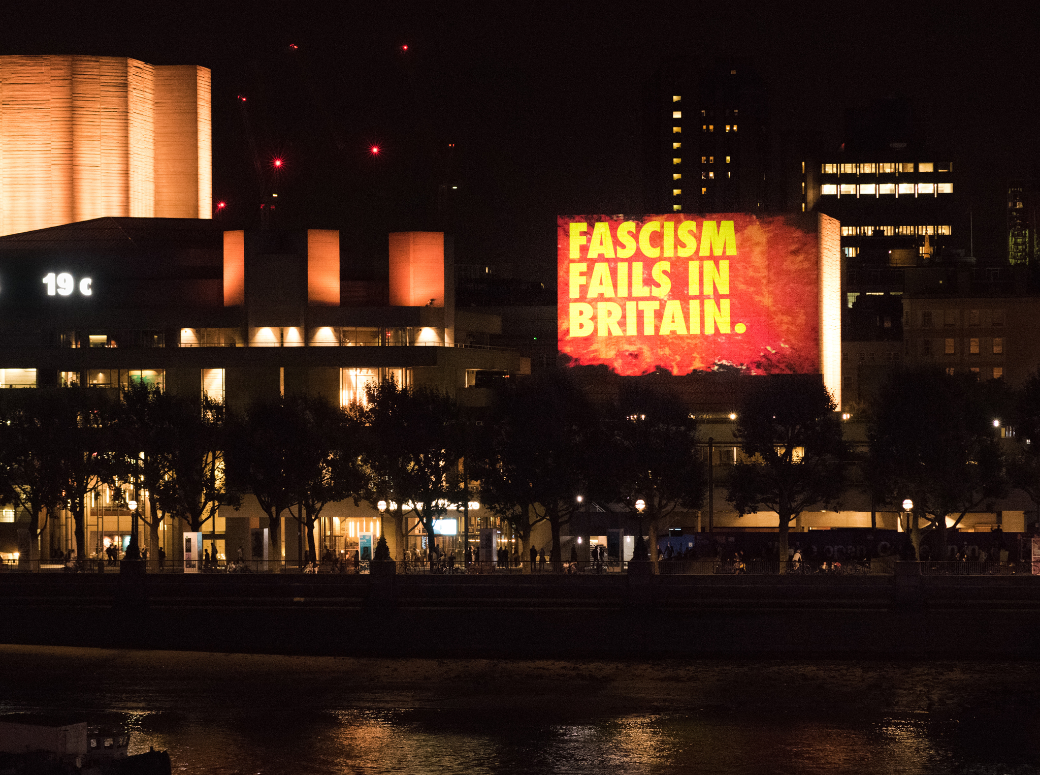 Projection of fire and text to the flytower of the National Theatre London by public artist Martin Firrell, commissioned by Artichoke to mark the 350th anniversary of the Great Fire of London